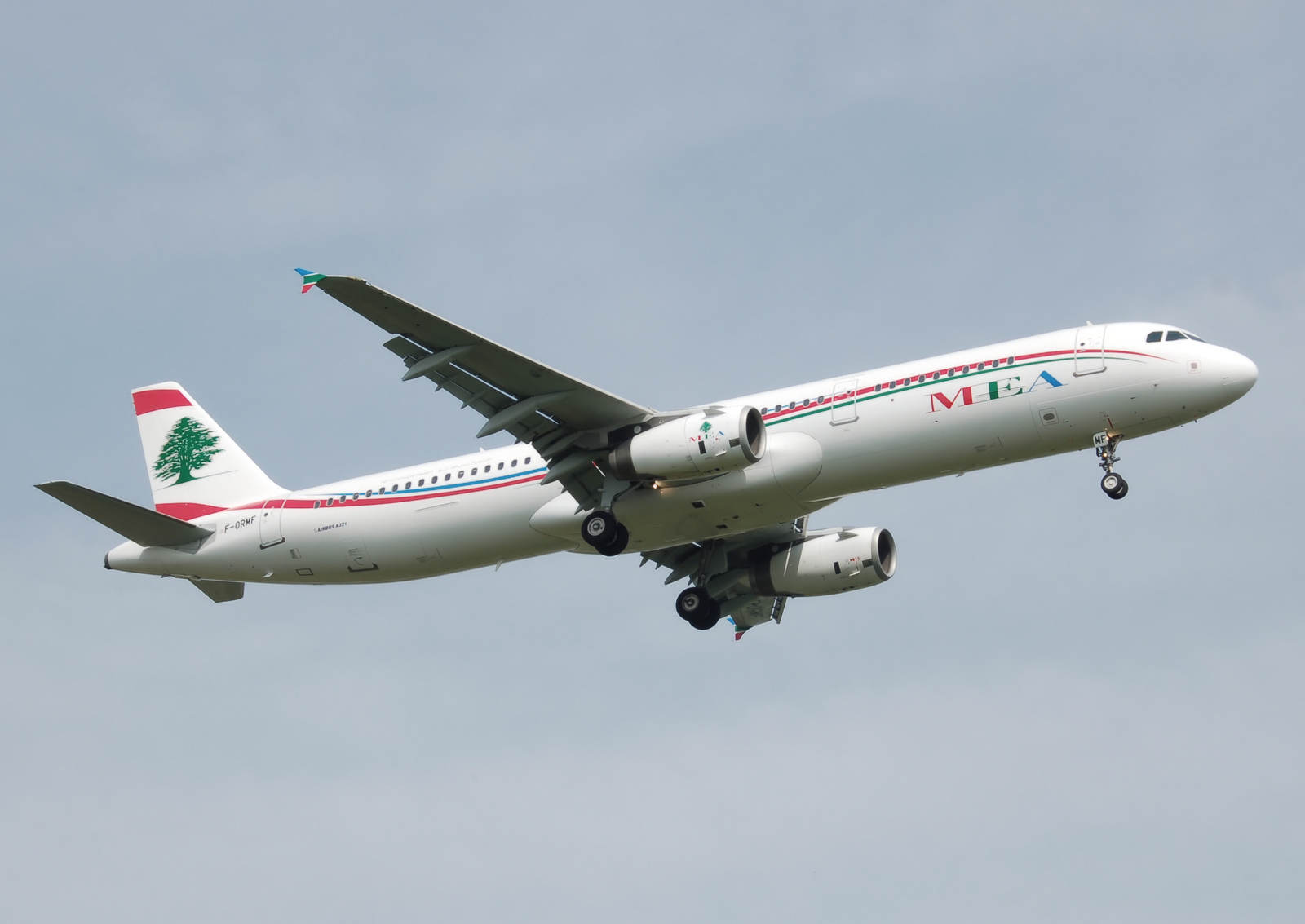 Middle East Airlines Airbus A321-200 (F-ORMF) lands at London Heathrow Airport, England.